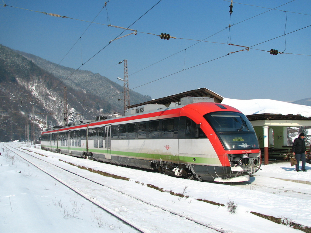 Siemens Desiro Classic 20221 of the Bulgarian State Railways on the Sofia-Lakatnik line near Thompson.